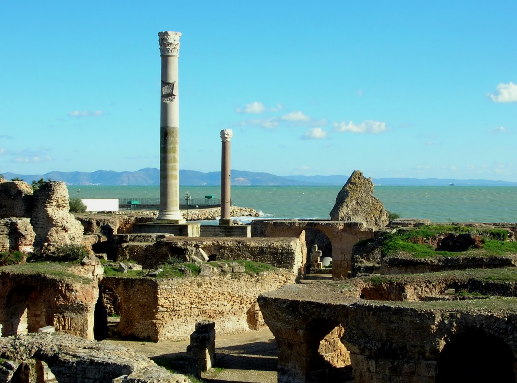 Antonine Baths, Tunis, Tunisia